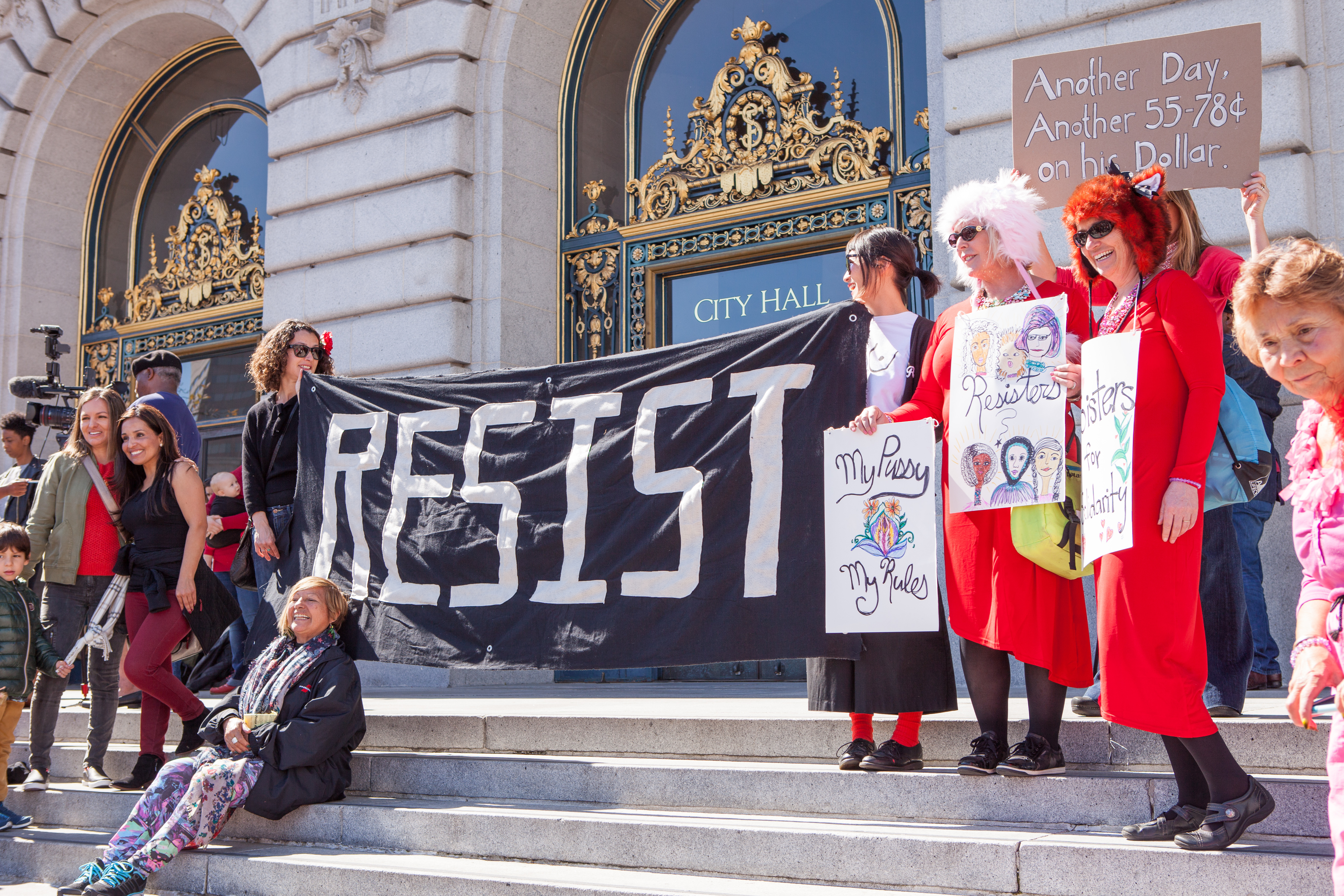 Day Without a Woman San Francisco attendees stand on the steps of City Hall, holding various signs and a banner reading "Resist".